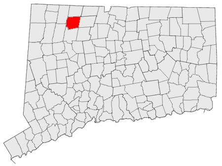 Location map of Winchester, Connecticut